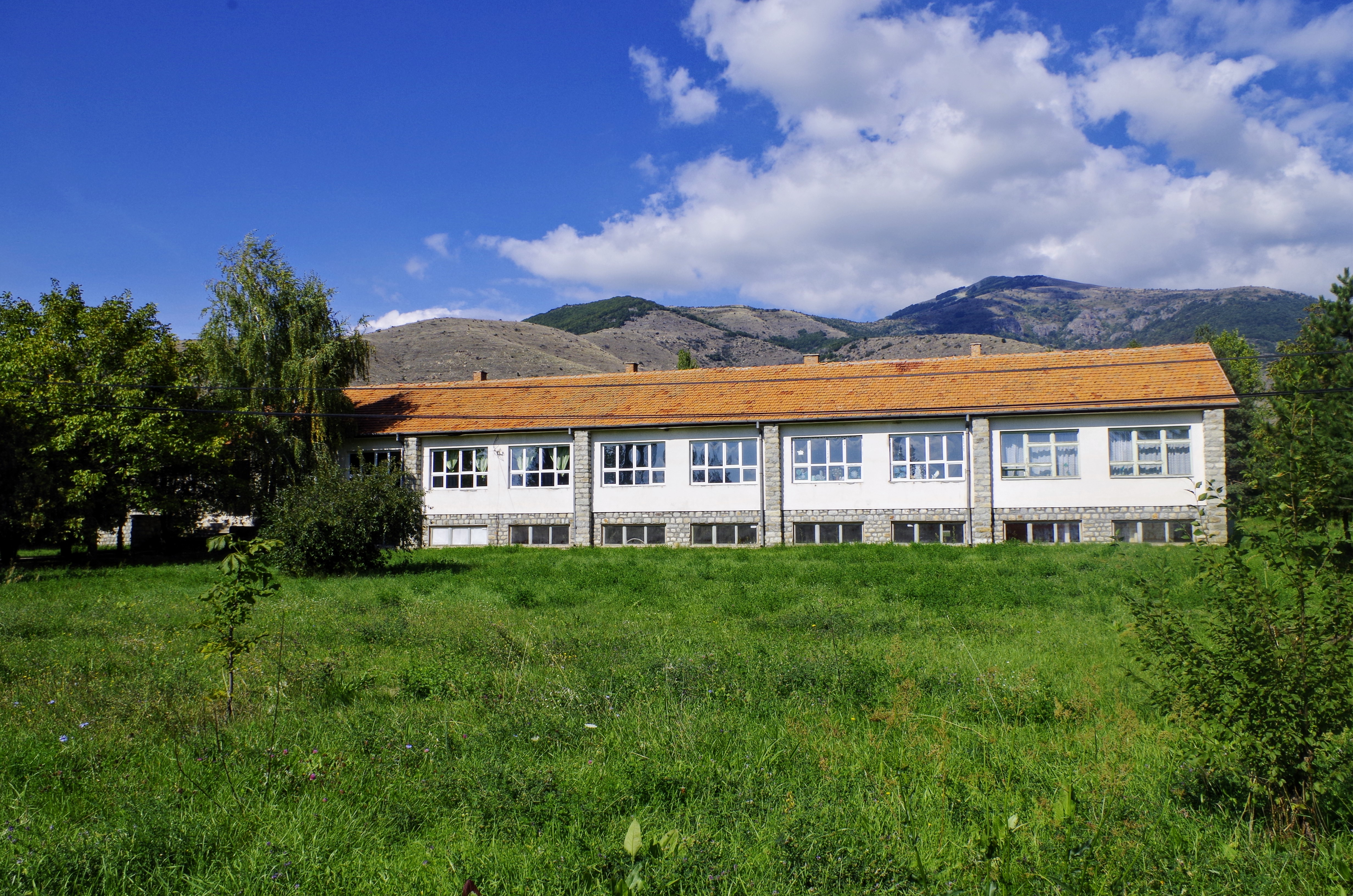 View of the primary school in the village Ljubojno